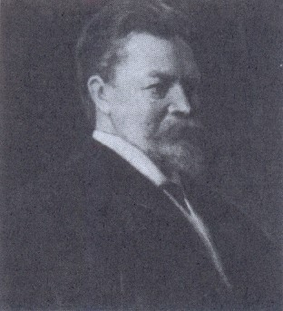 A portrait of the geopolitician Rudolf Kjellén